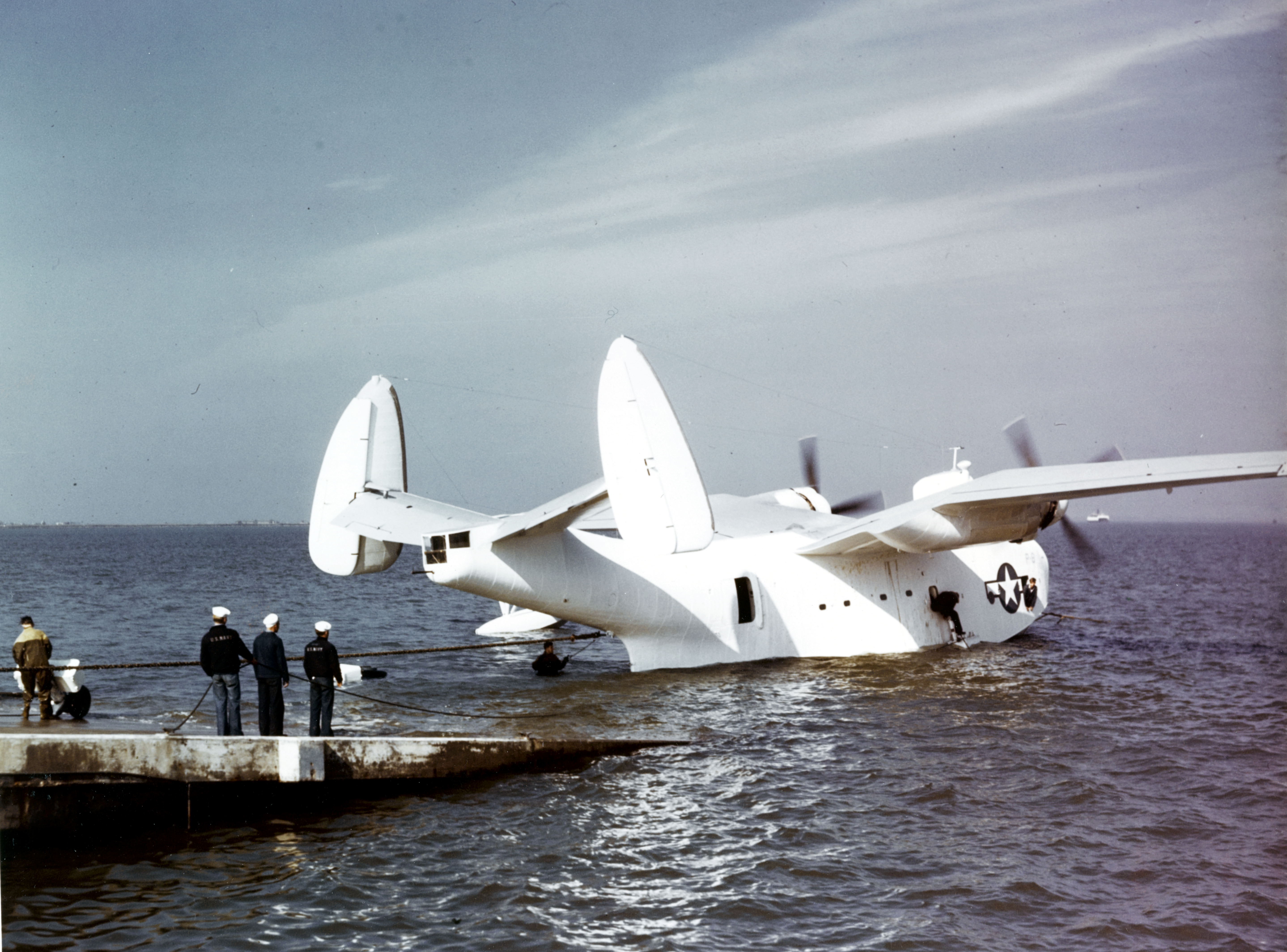 A U.S. Navy beaching crew prepares to haul a Martin PBM-3S Mariner (BuNo 6729) of Patrol Bombing Squadron 206 (VPB-206) out out the water, 1944-45. VPB-206 operated from Quonset Point, Rhode Island (USA), and later Elisabeth City, North Carolina (USA).